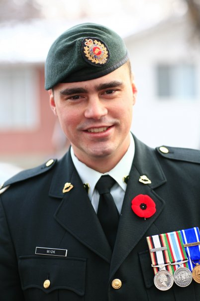 Sgt. George Miok, a Canadian soldier killed in Kandahar, Afghanistan in December 2009.